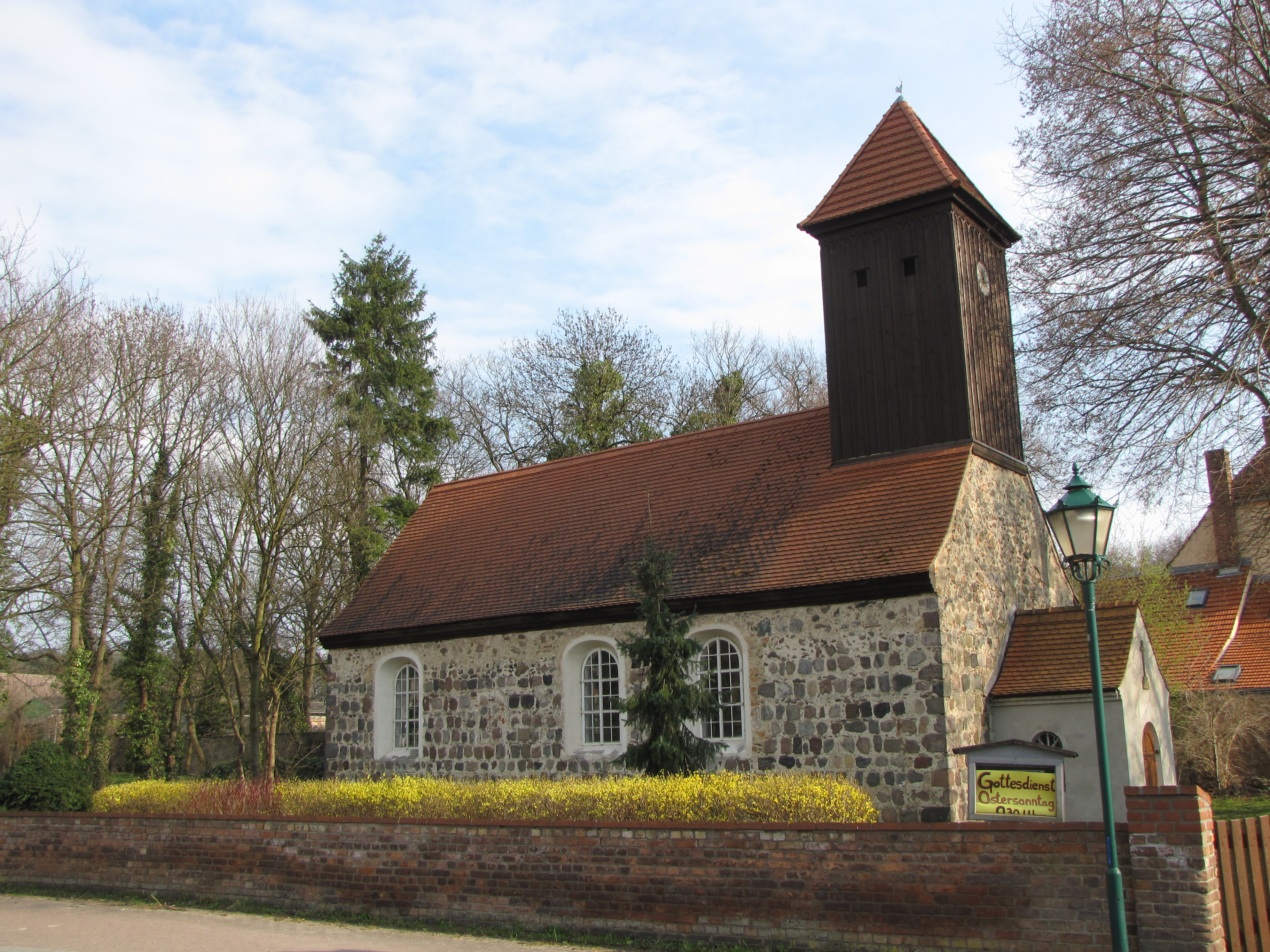 Klein Kienitz, Gemeinde Rangsdorf, Brandenburg, Germany, Church, around 1300